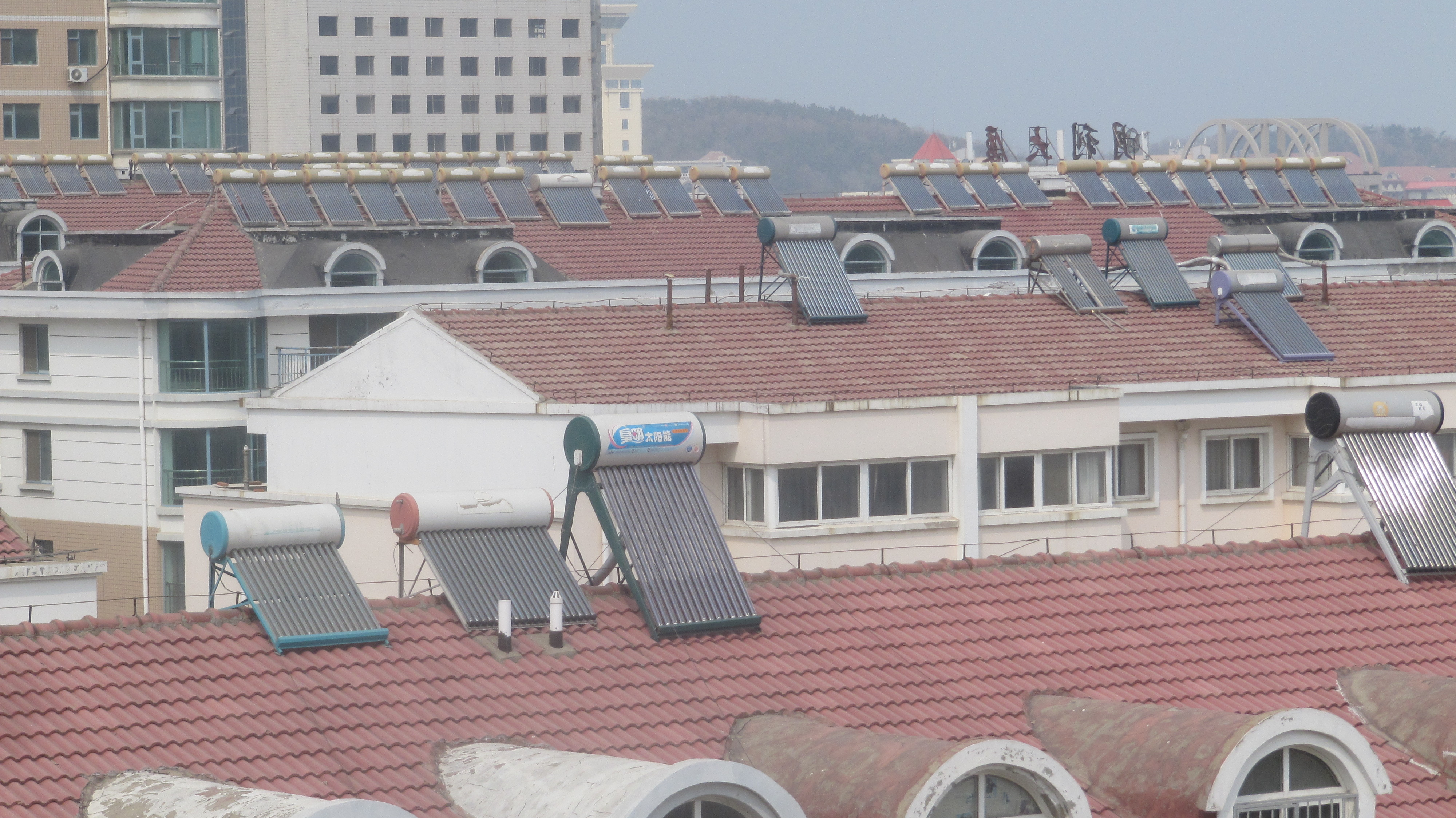 Solar hot water in Weihai, Shandong province, China, like in the rest of China, this technology has a great succes in this city